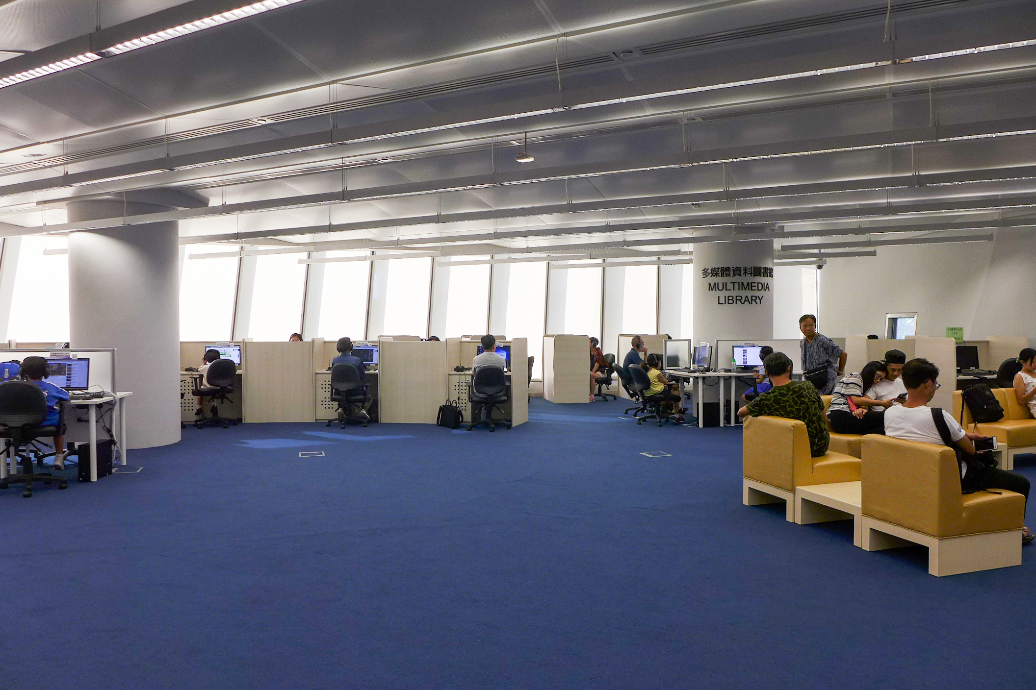 Yuen Long Public Library Multimedia library